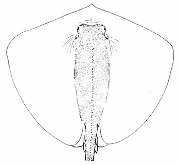 Illustration of Trygon jenkinsii (=Himantura jenkinsii), accompanying the species description